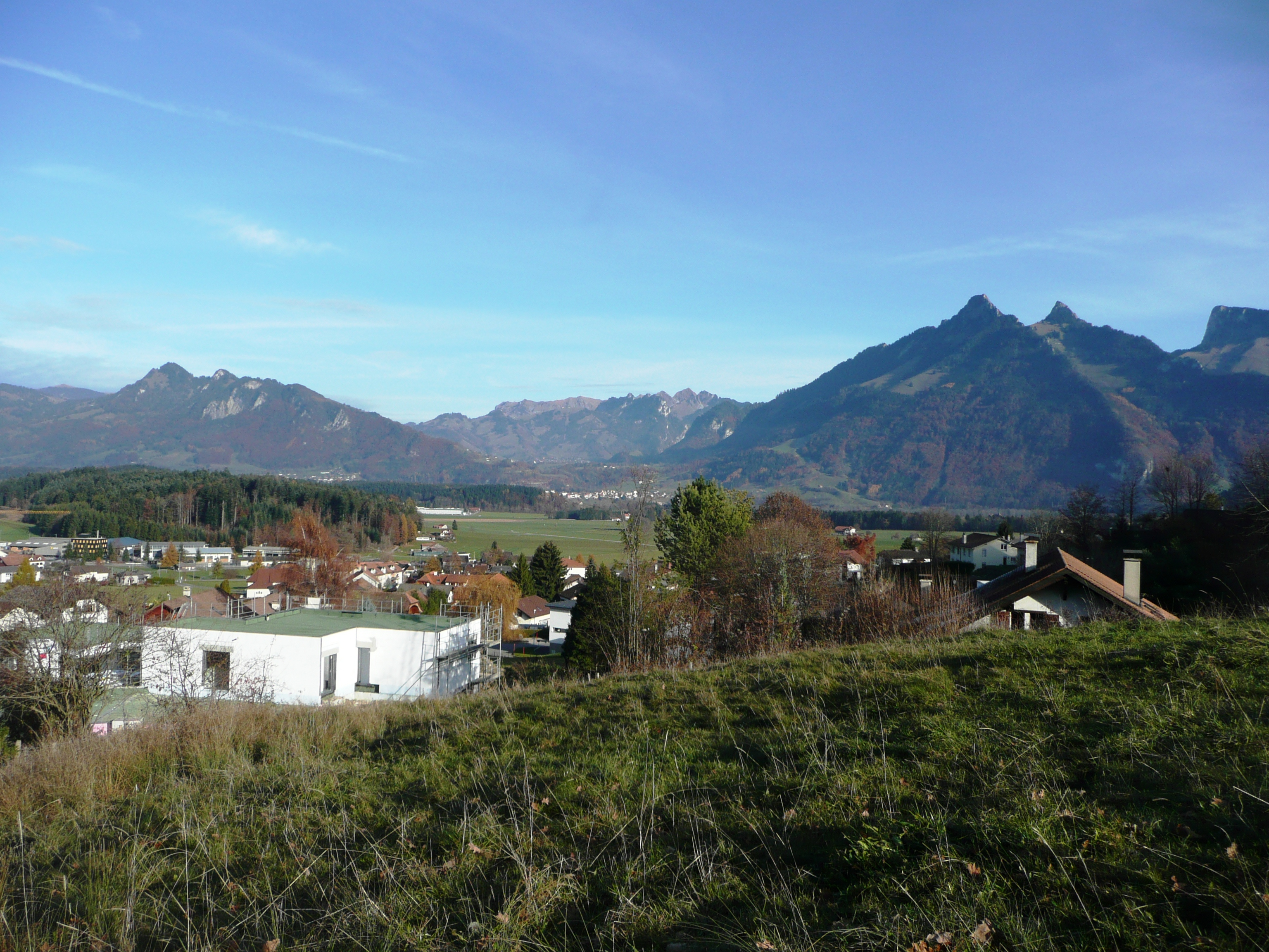 New construction in Le Pâquier-Montbarry, near Bulle, Gruyère, Switzerland